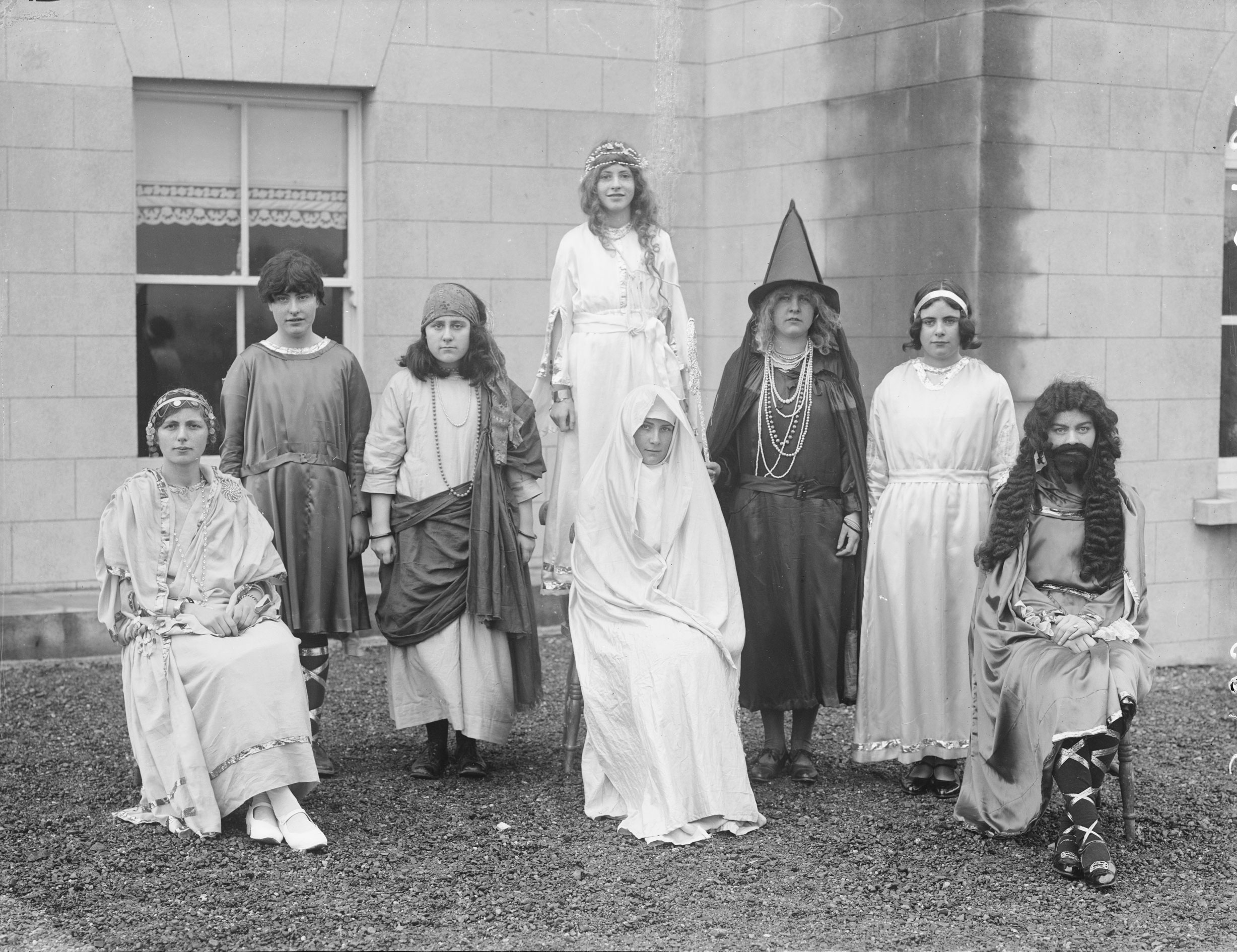 Pupils of Our Lady of Lourdes, Holy Faith school at Rosbercon, New Ross, Co. Wexford. Looks as if they were dressed up for a Nativity Play, but what the hell was the Wicked Witch of the West doing as part of the cast? Date: 23 December 1930 NLI Ref.: P_WP_3785